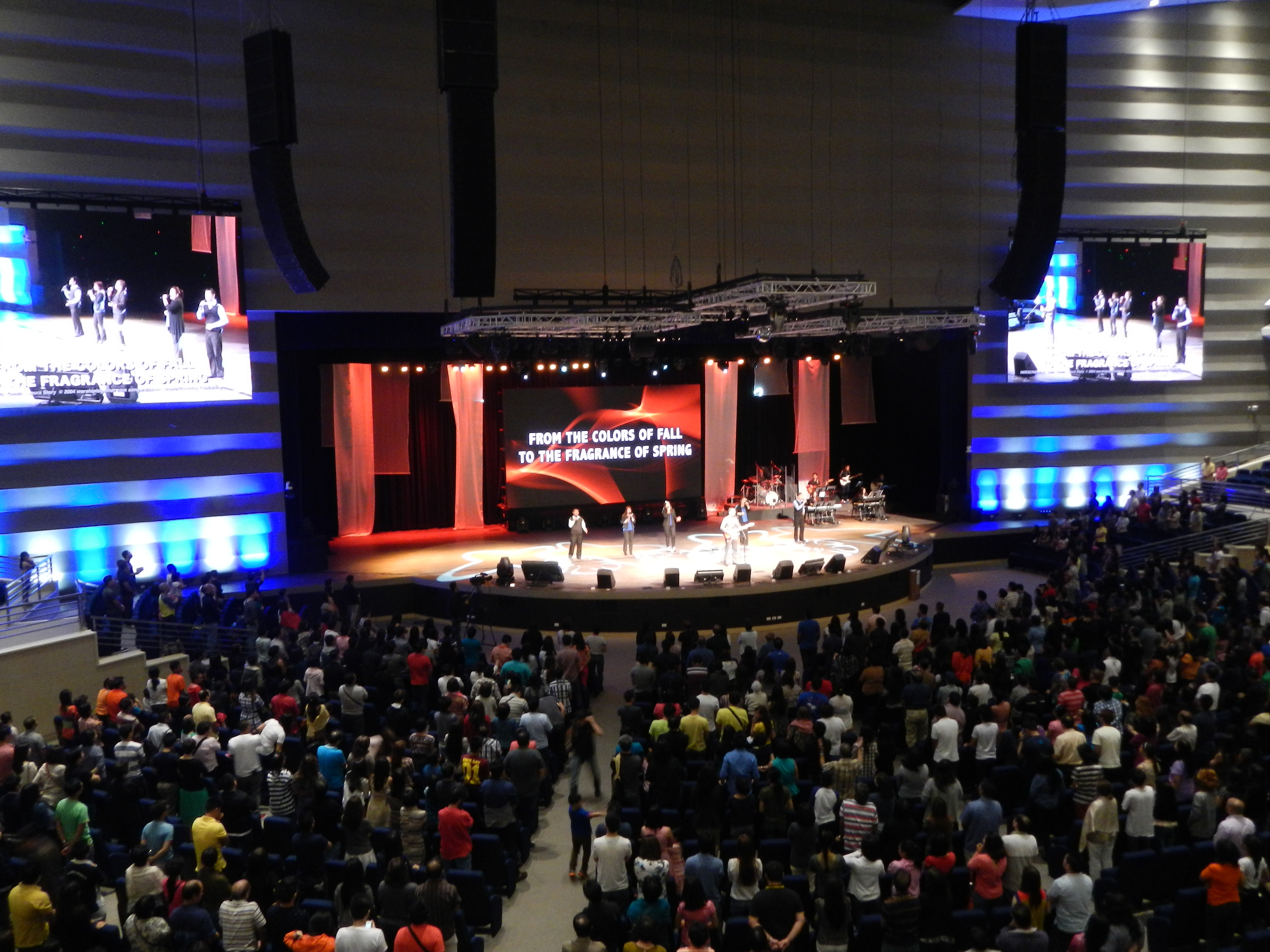 Upload Wizard photos of - Christ's Commission Fellowship [1] CCF Center, Frontera Verde, Ortigas Avenue [2] corner C5 Road, [3] Pasig City[4] Dr. Peter Tan-Chi (Senior Pastor/Elder) Ptr. Ricky Sarthou (Executive Pastor).